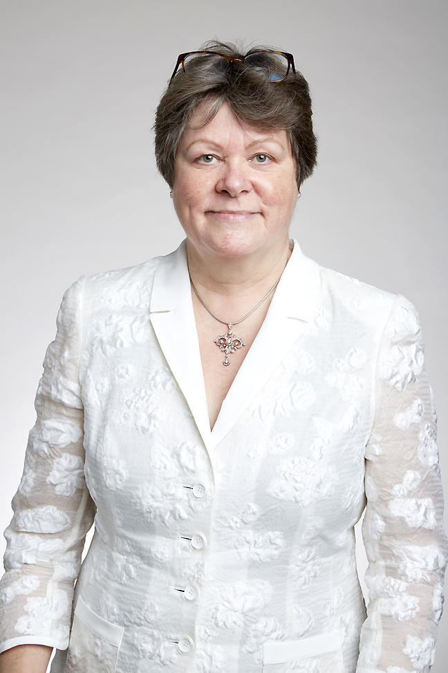 Julia Elizabeth King, Baroness Brown of Cambridge, DBE FREng FRS FInstP CEng FRAeS (born 11 July 1954) is a British engineer and crossbench member of the House of Lords, who was the Vice-Chancellor of Aston University from 2006 to 2016. Attribution: The Royal Society